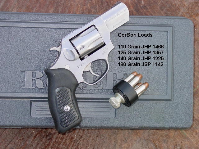 Ruger SP101 with 2.25-inch barrel. Corbon performance data